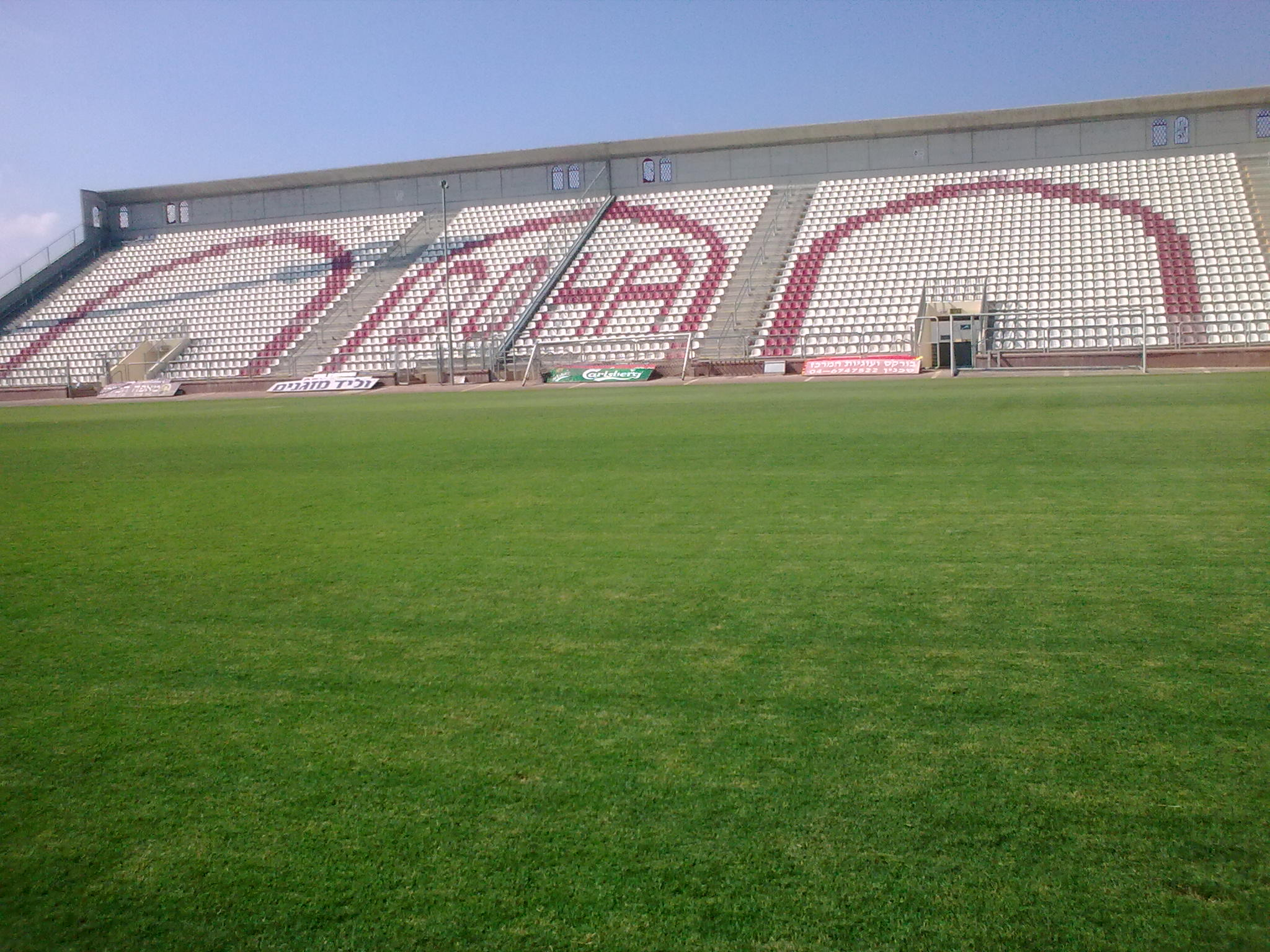 Doha Stadium, Sakhnin